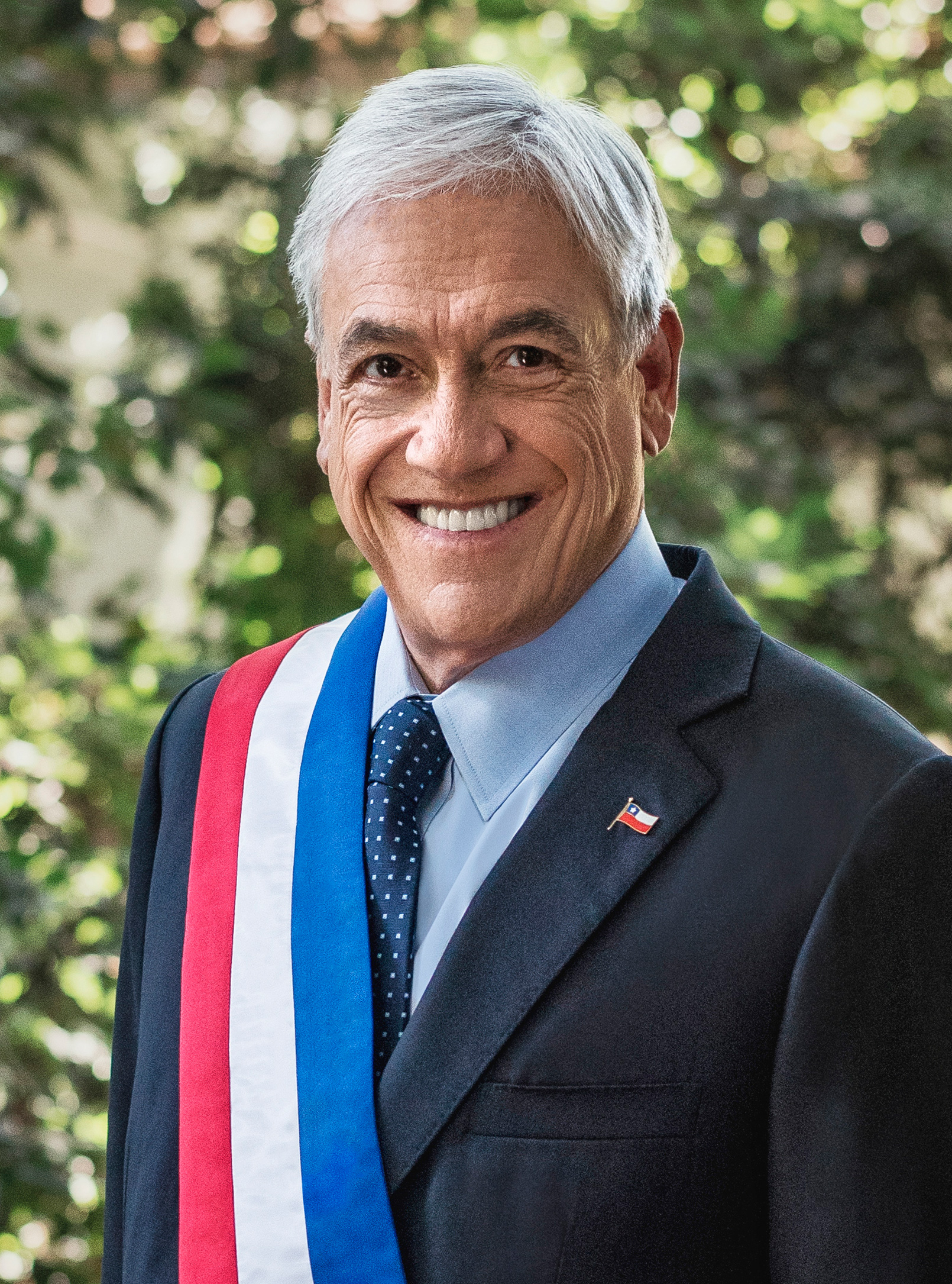 Official photograph of the President of the Republic 2018-2022, Sebastián Piñera Echenique.